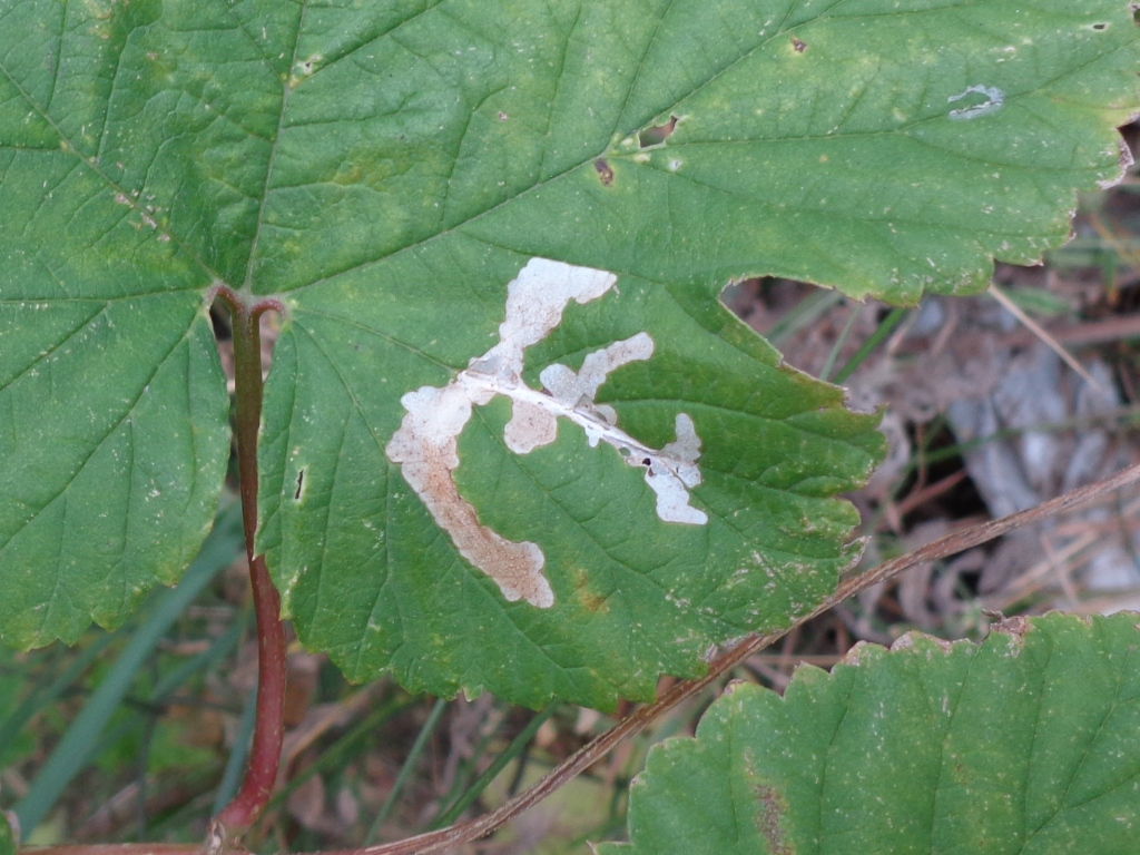 Cosmopterix zieglerella.